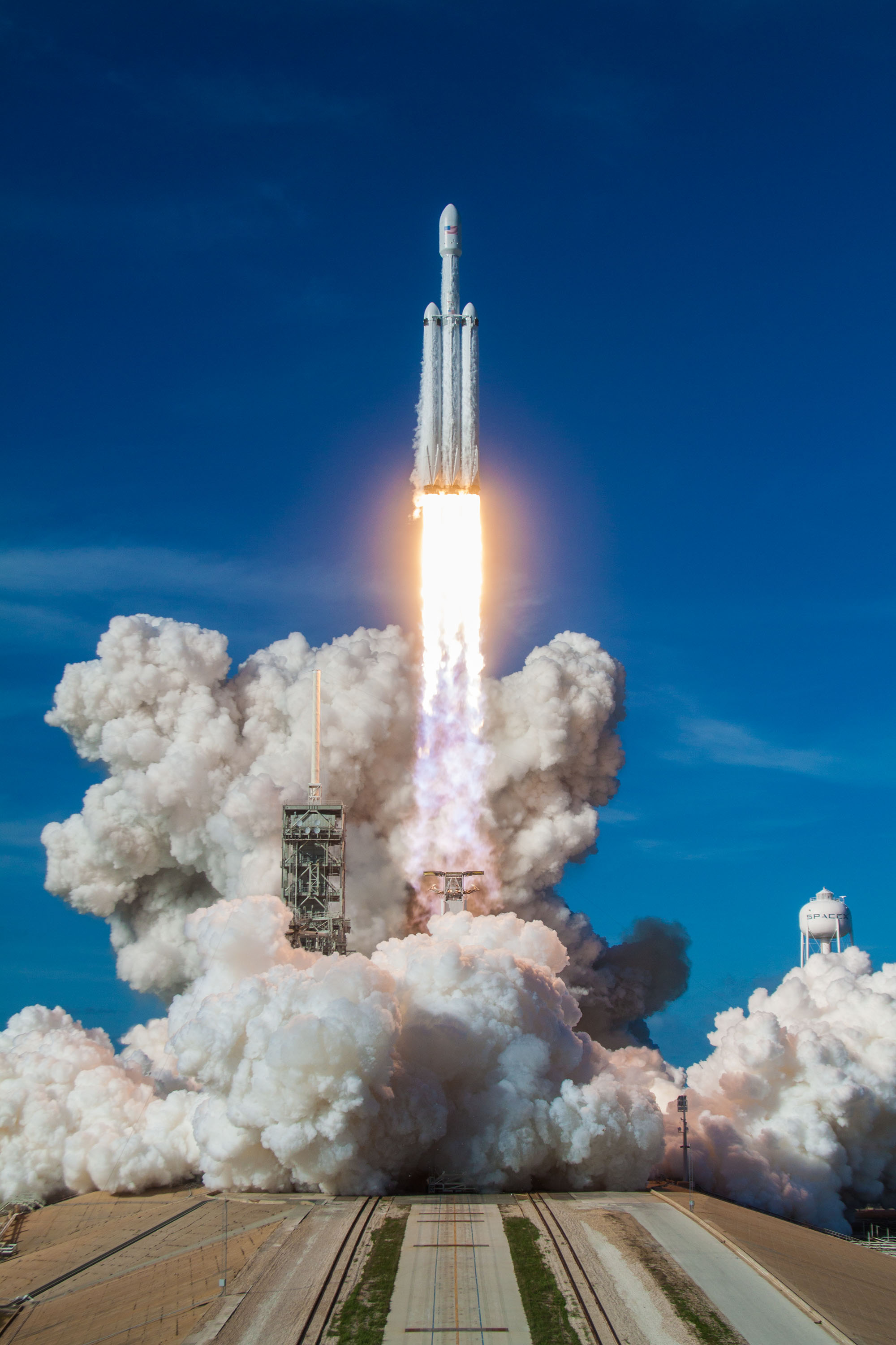 Falcon Heavy Demo Mission